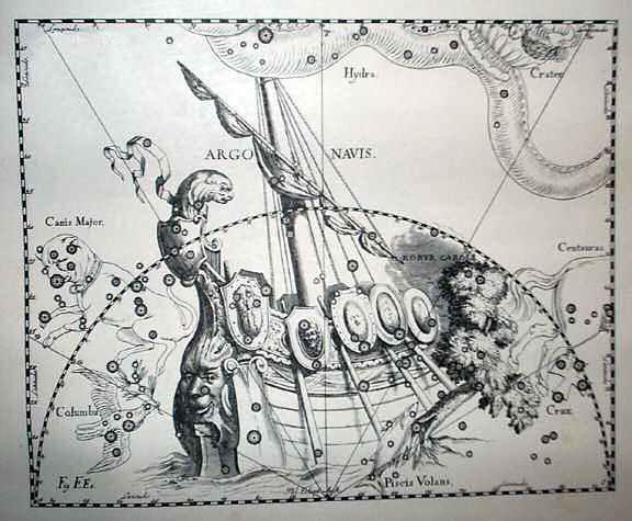 Johannes Hevelius, Prodromus Astronomiae, volume III: Firmamentum Sobiescianum, sive Uranographia, table EEE: Argo Navis, 1690.